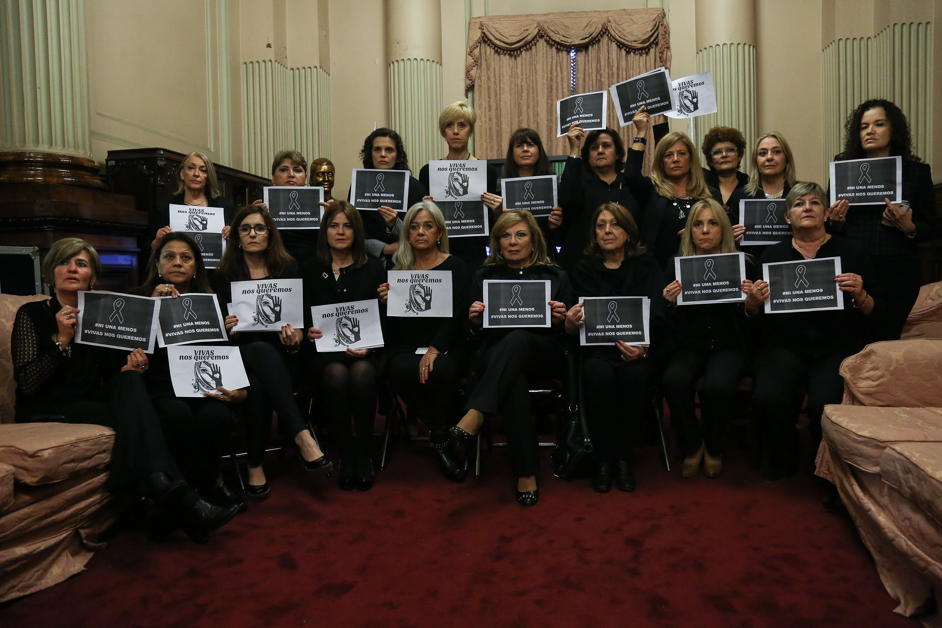 Women senators of Argentina supporting the #Vivasnosqueremos (We want us alive) against male violence). 2016